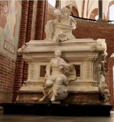 Louise of mecklenburg-gustrow sarcophagus, roskilde cathedral